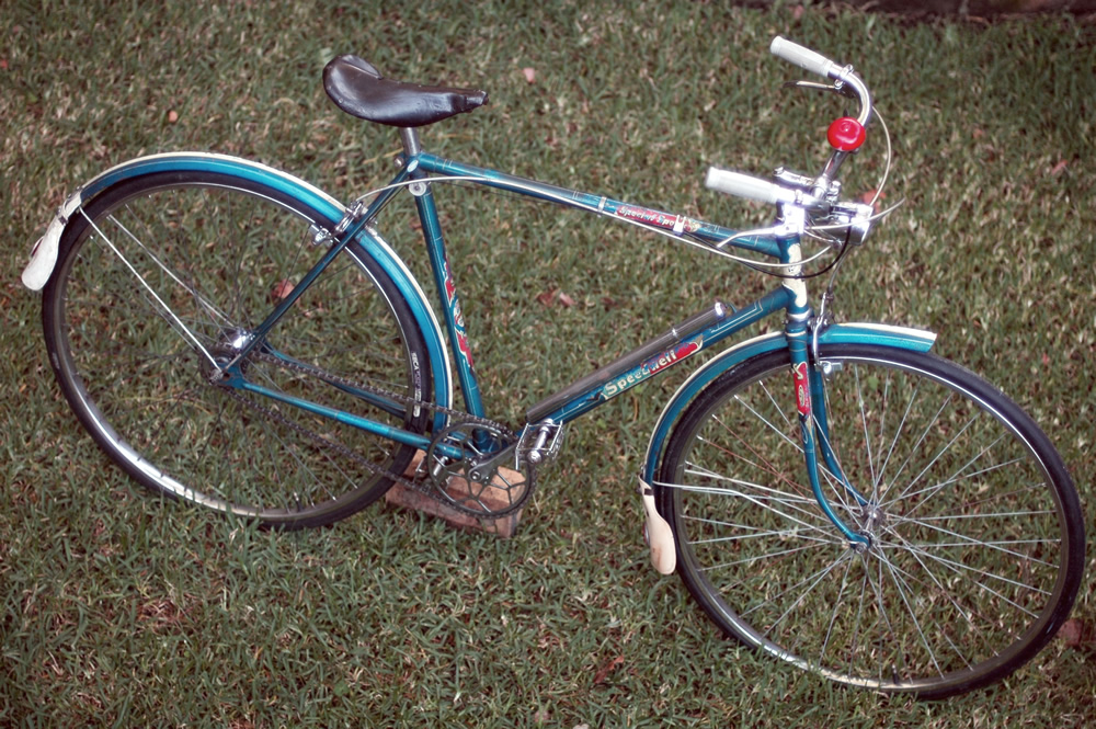 Drive side of of Australian Speedwell 27" bicycle 1956